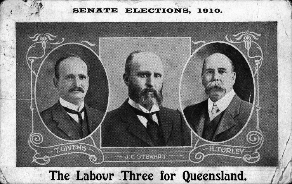 Senate elections card featuring three Labor members for Queensland : Thomas Givens, James Stewart, Harry Turley, 1910.